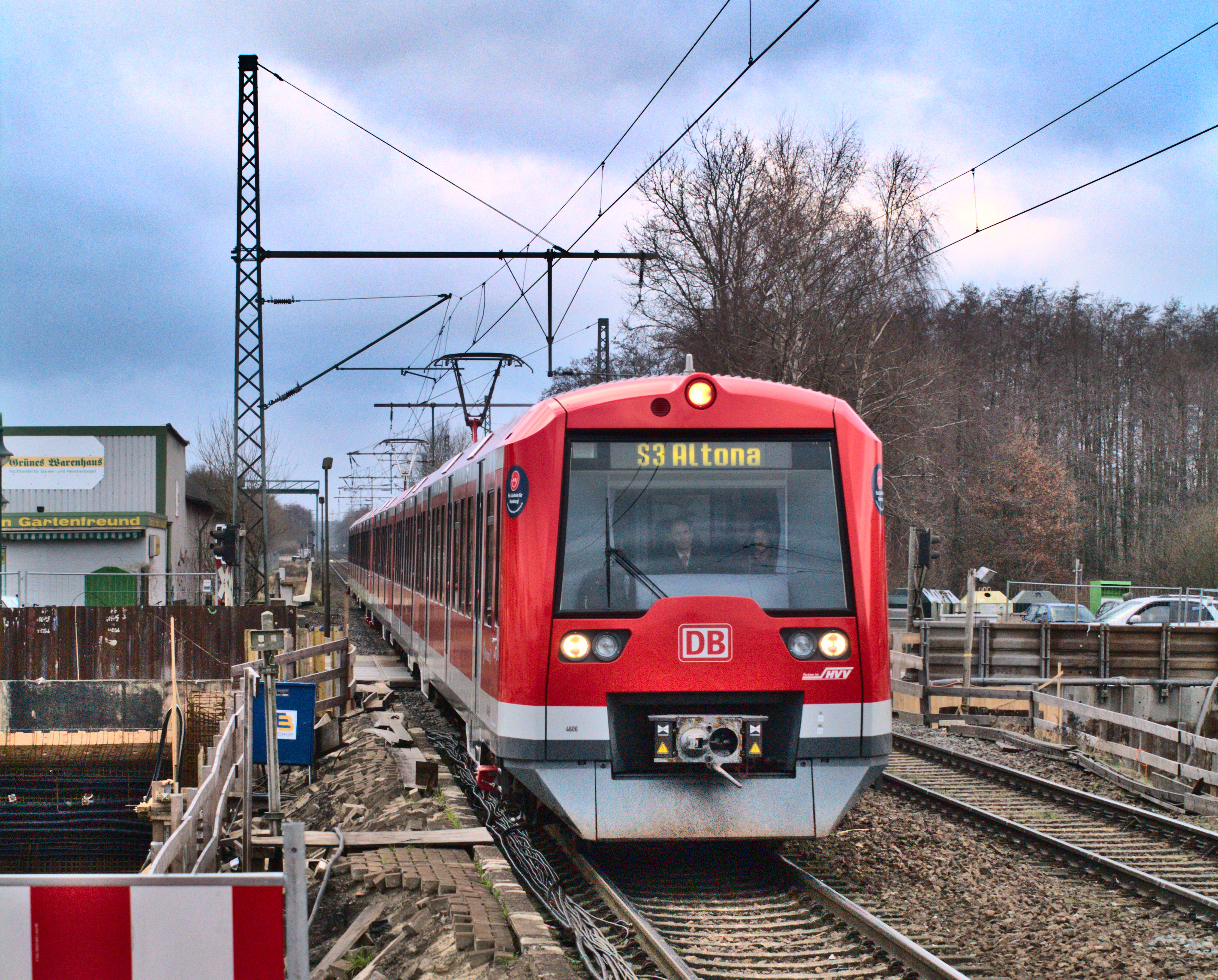 A Hamburg Rapid Transit train comprised of two Type 474 units approaches Neu-Wulmstorf station on line S3 on 08 December 2007. Curiosity: Officially, the extension of line S3 via Neu-Wulmstorf to Stade should have been opened the day after.